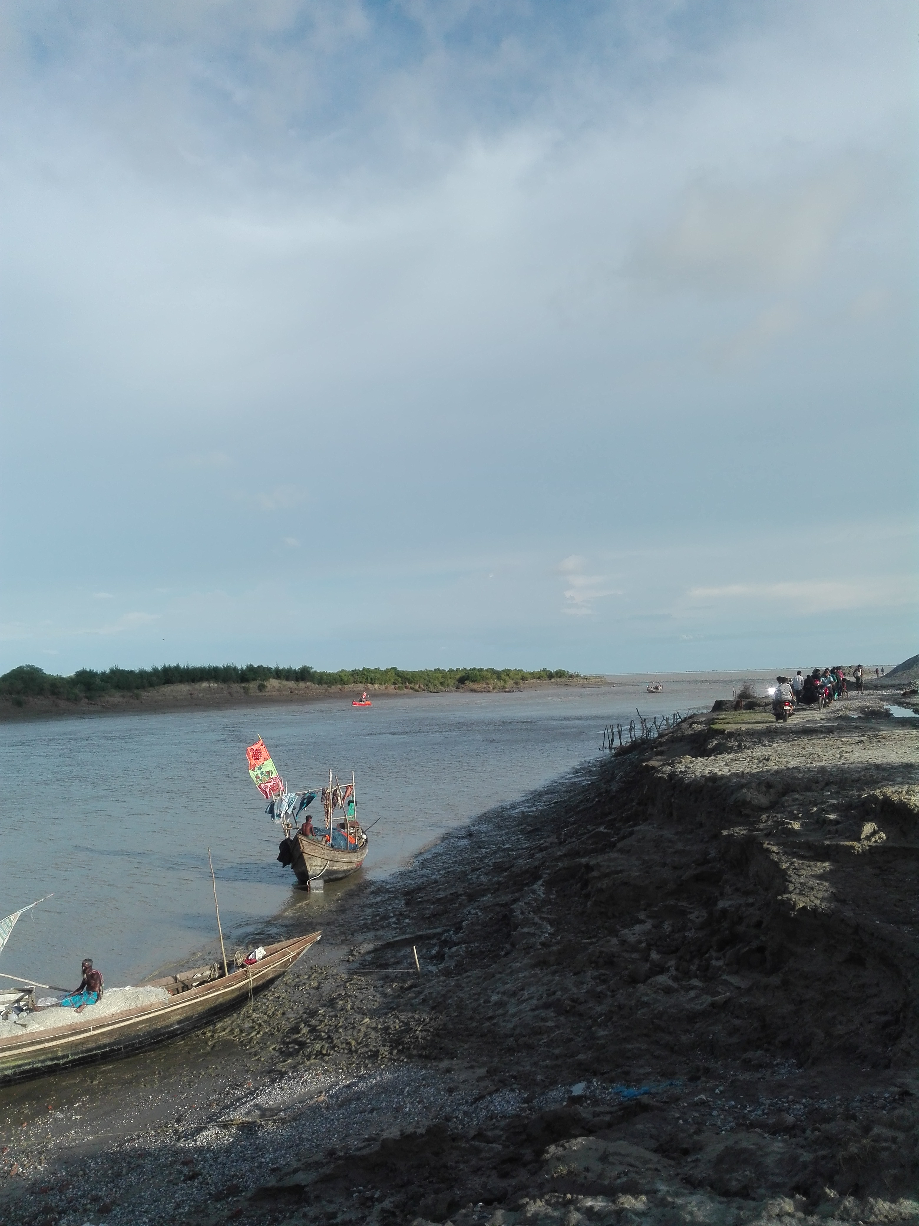 Small feni river(Muchapur Closer) Awesome place